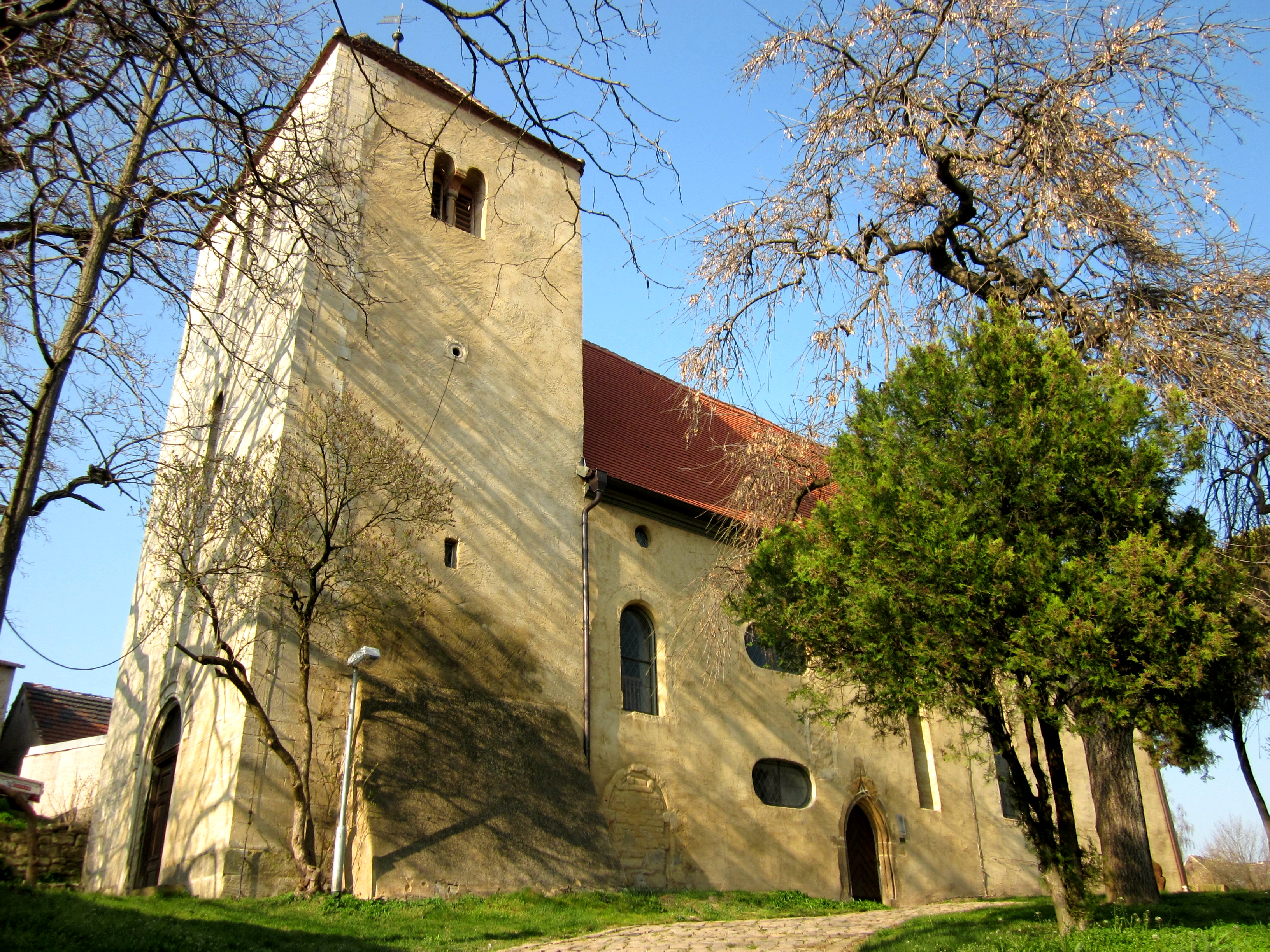 St. Peter's Church in Esperstedt (Obhausen, district: Saalekreis, Saxony-Anhalt)